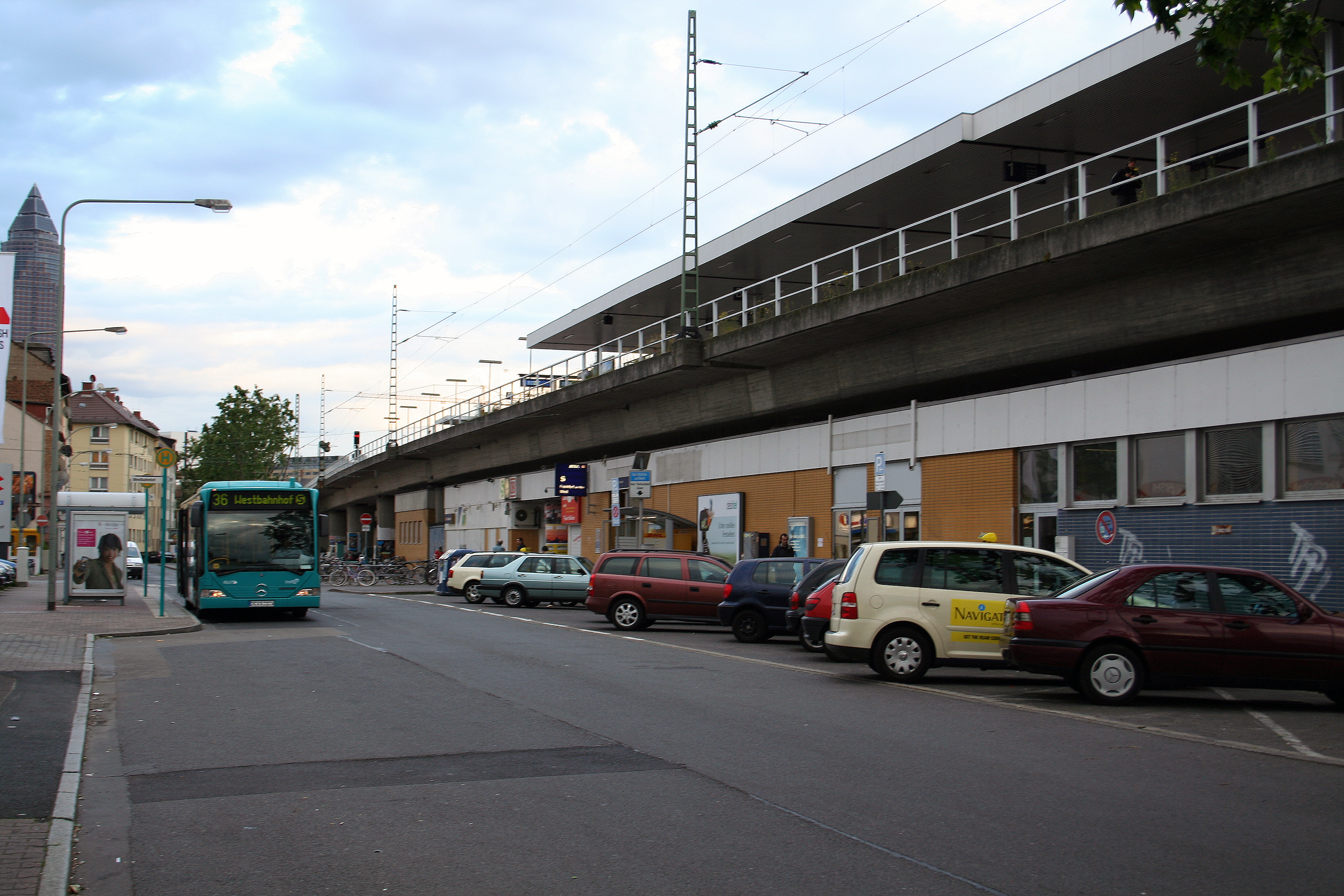 Train station Frankfurt West, entrance building